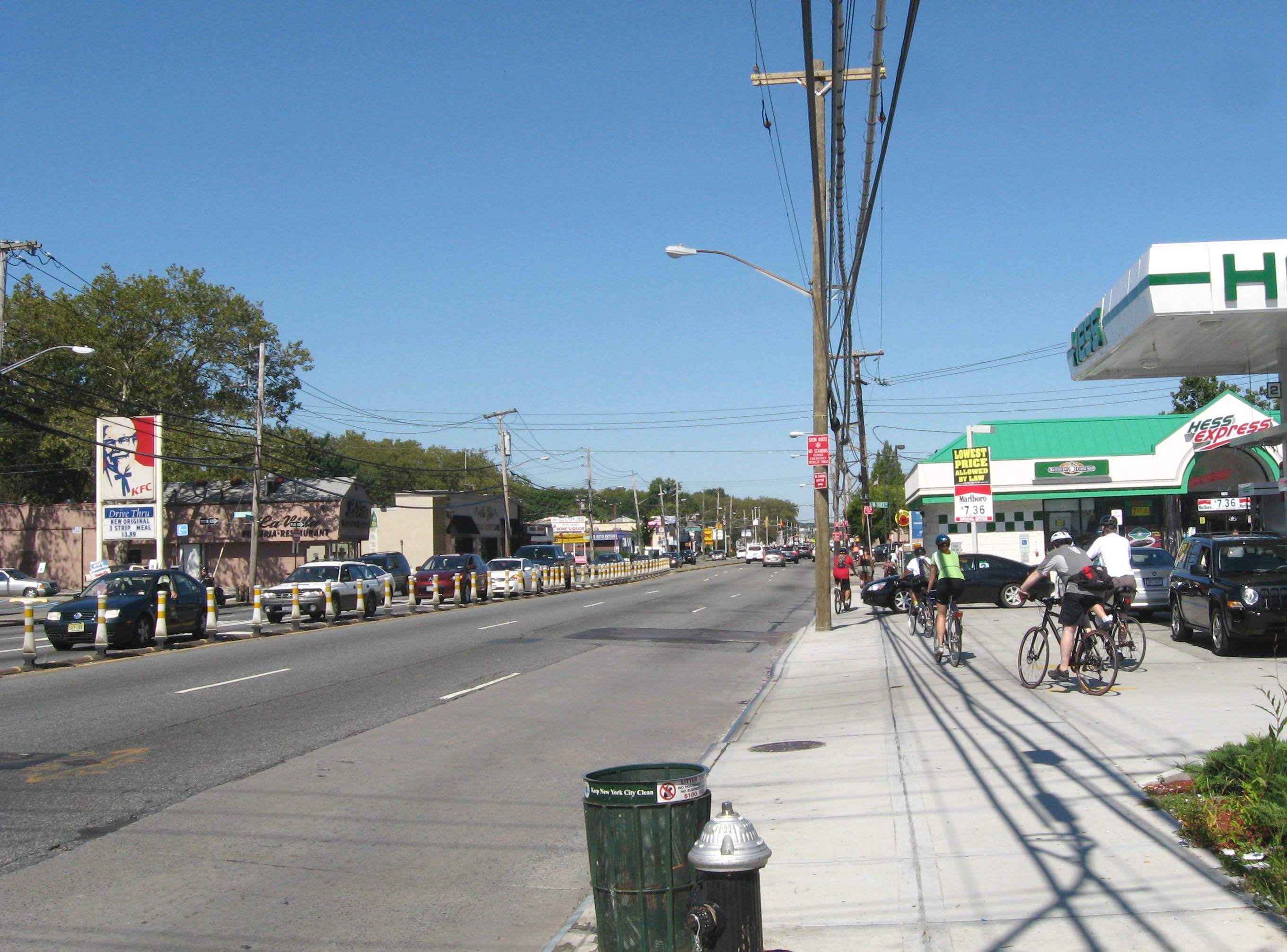 Looking northeast along Hylan Boulevard from New Dorp Lane in Staten Island on a sunny midday